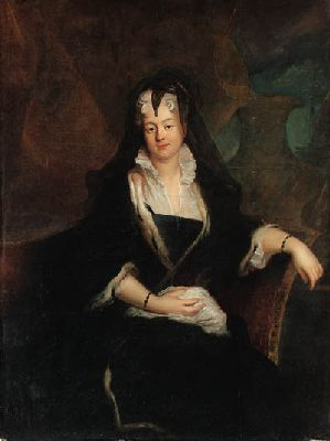 Princess Johanna Charlotte of Anhalt-Dessau (1682-1750), margravine of Brandenburg-Schwedt and Princess-Abbess of Herford